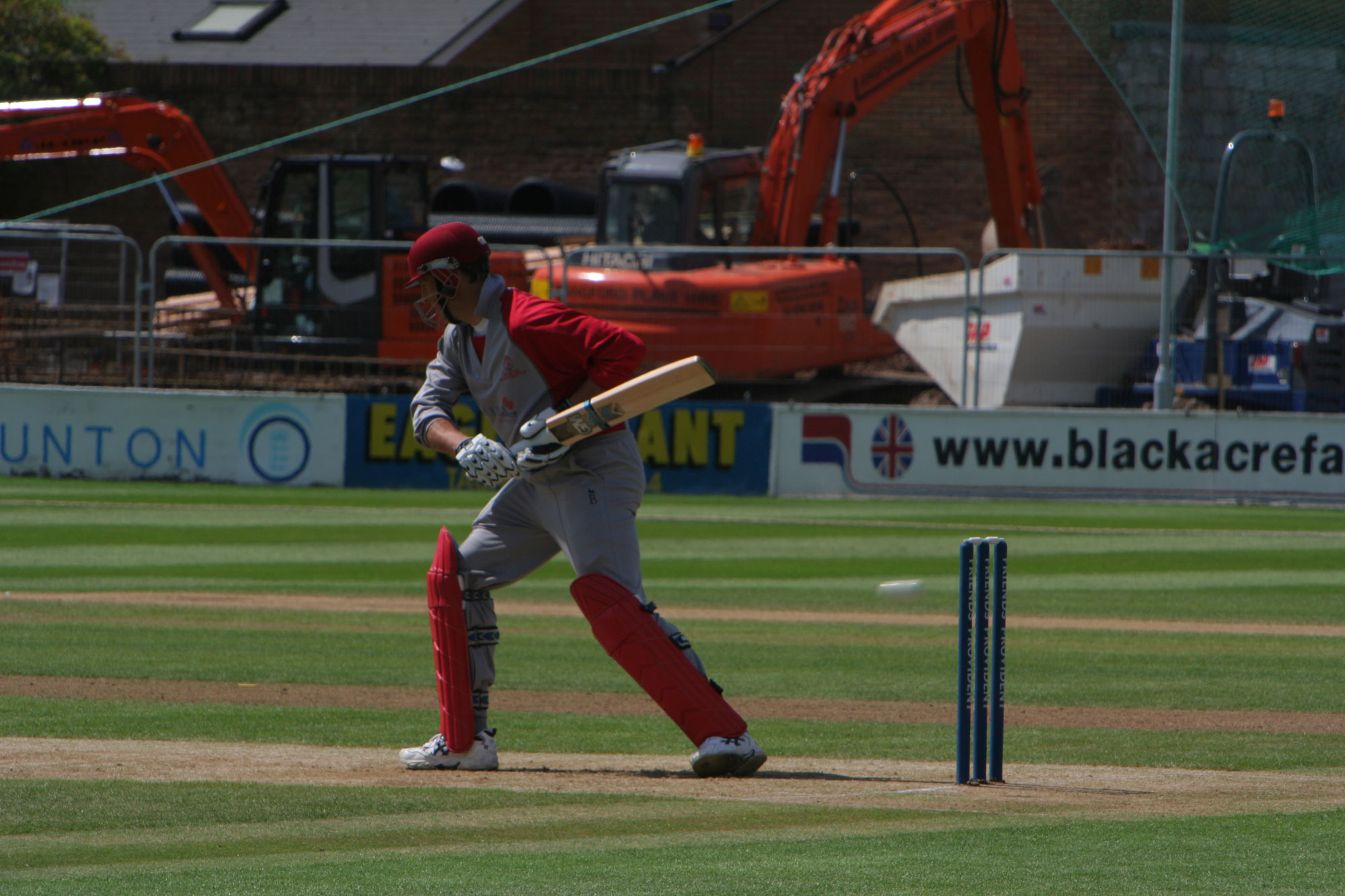 Marcus Trescothick batting for Somerset